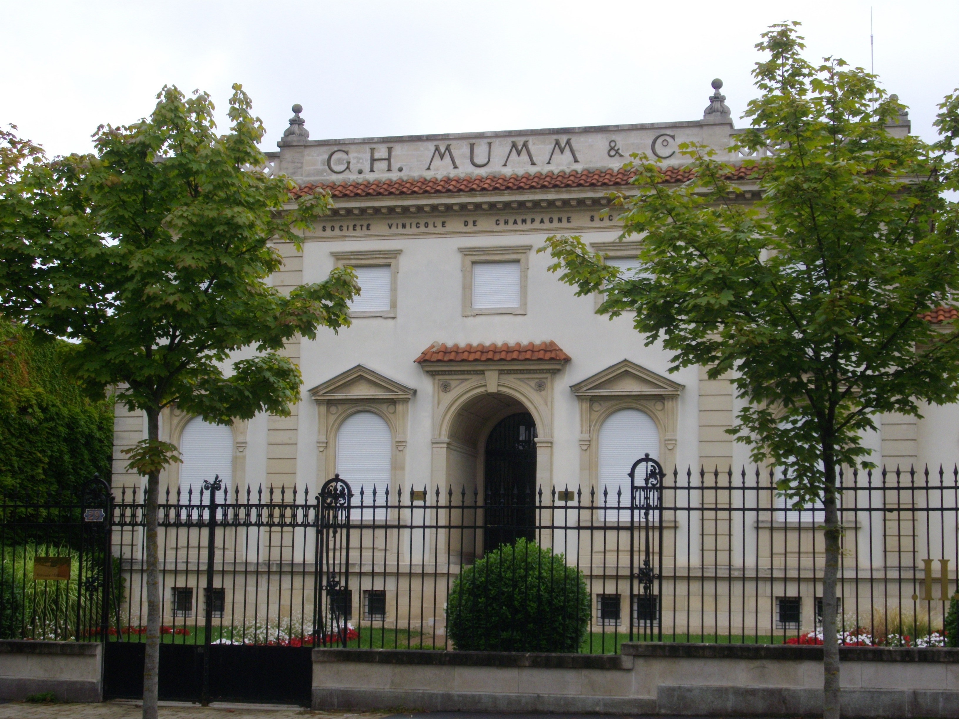 Mumm champagne house on Champ de Mars street in Reims (Marne, France)